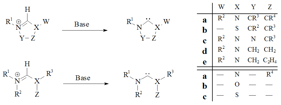 Deprotonation1